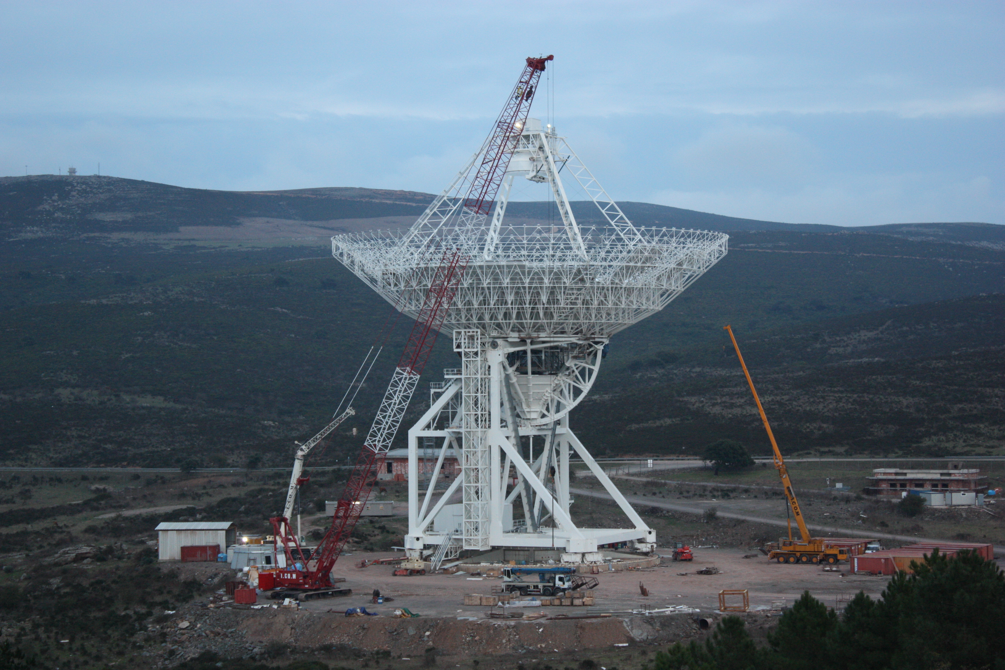 Picture of the Sardinia Radio Telescope (SRT) under construction. Picture taken at the official vista point of the construction site.